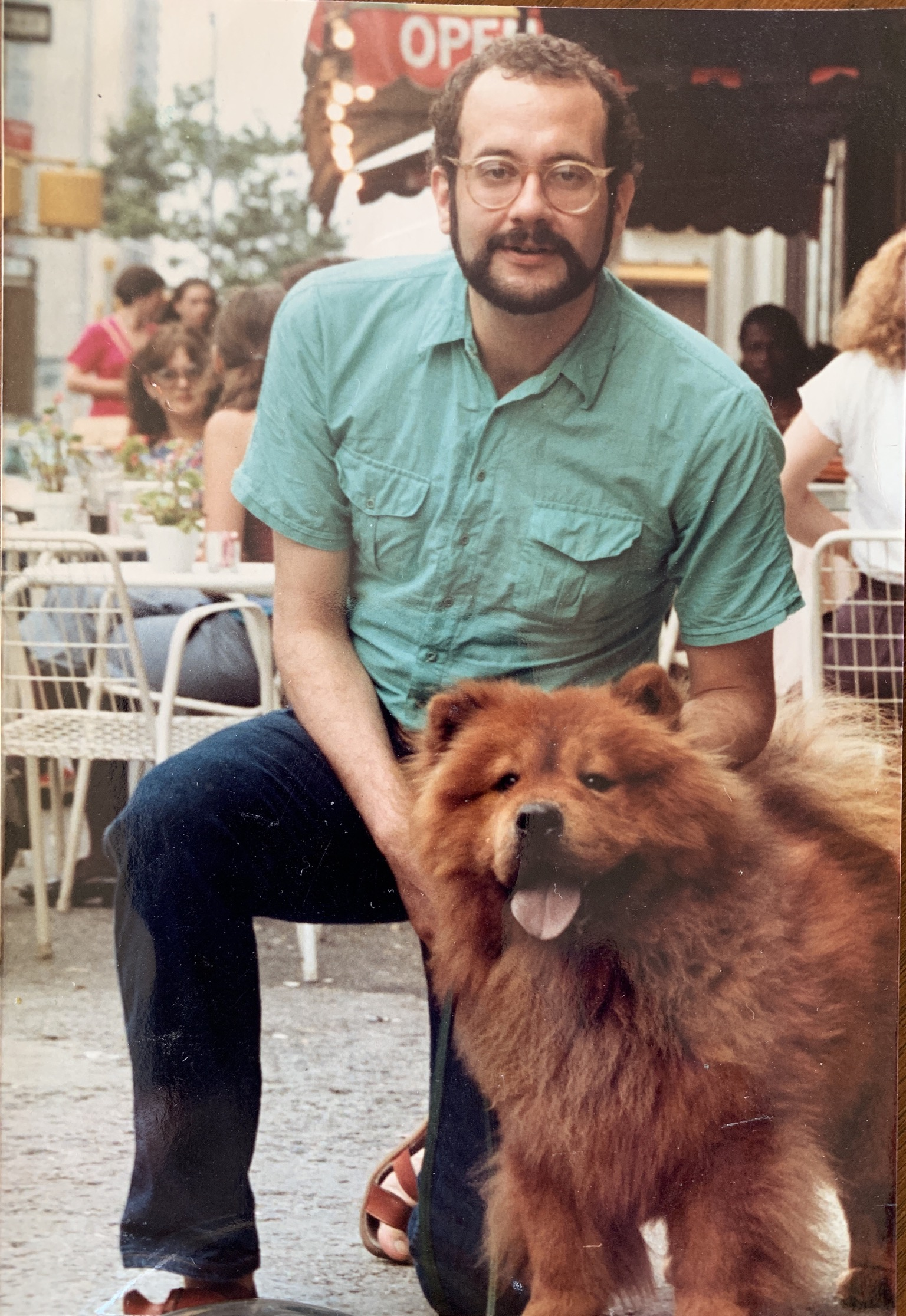 This is a picture of John-Michael Tebelak, the original creator of the American musical "Godspell", taken in New York City in 1982. Next to him is his pet dog, "Samuel Taylor Coleridge."